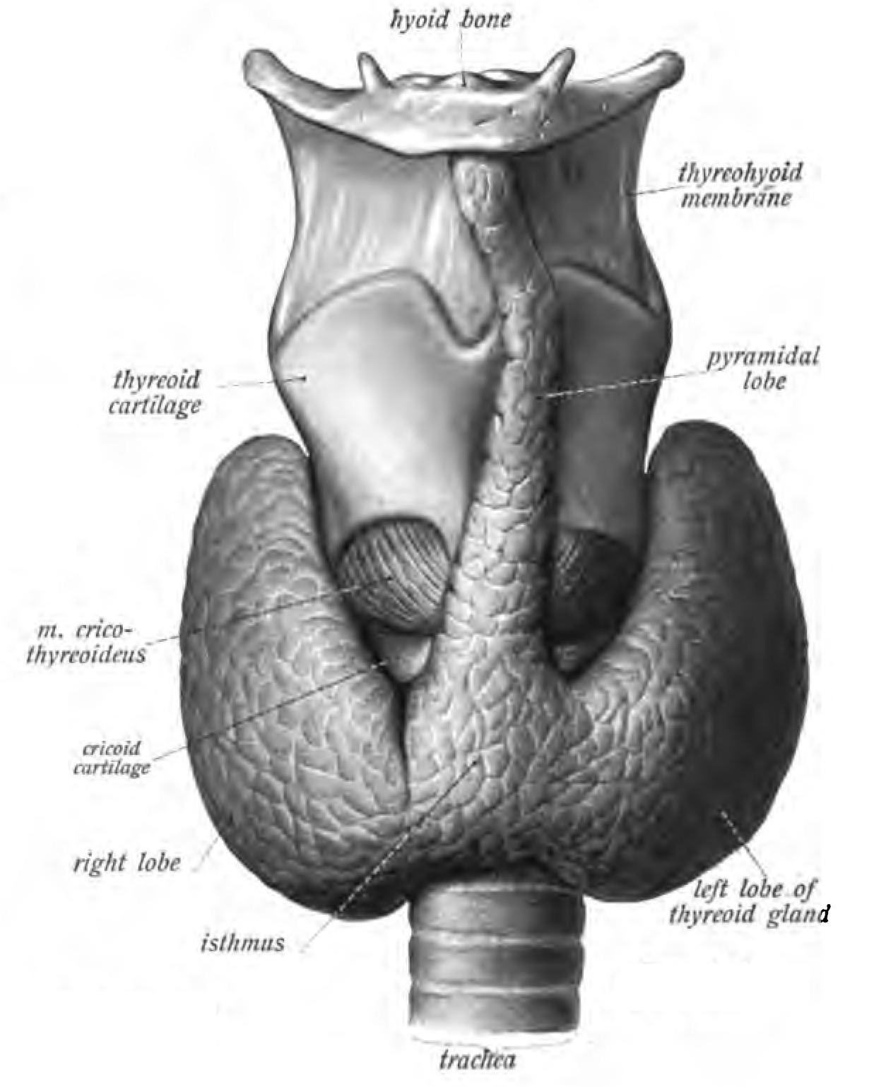 An anatomical illustration from the 1906 edition of Sobotta's Atlas and Text-book of Human Anatomy with English Terminology